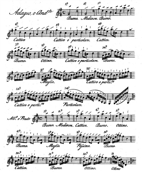 Examples of articulation from Francesco Geminiani's "The art of playing on the violin" (1751)